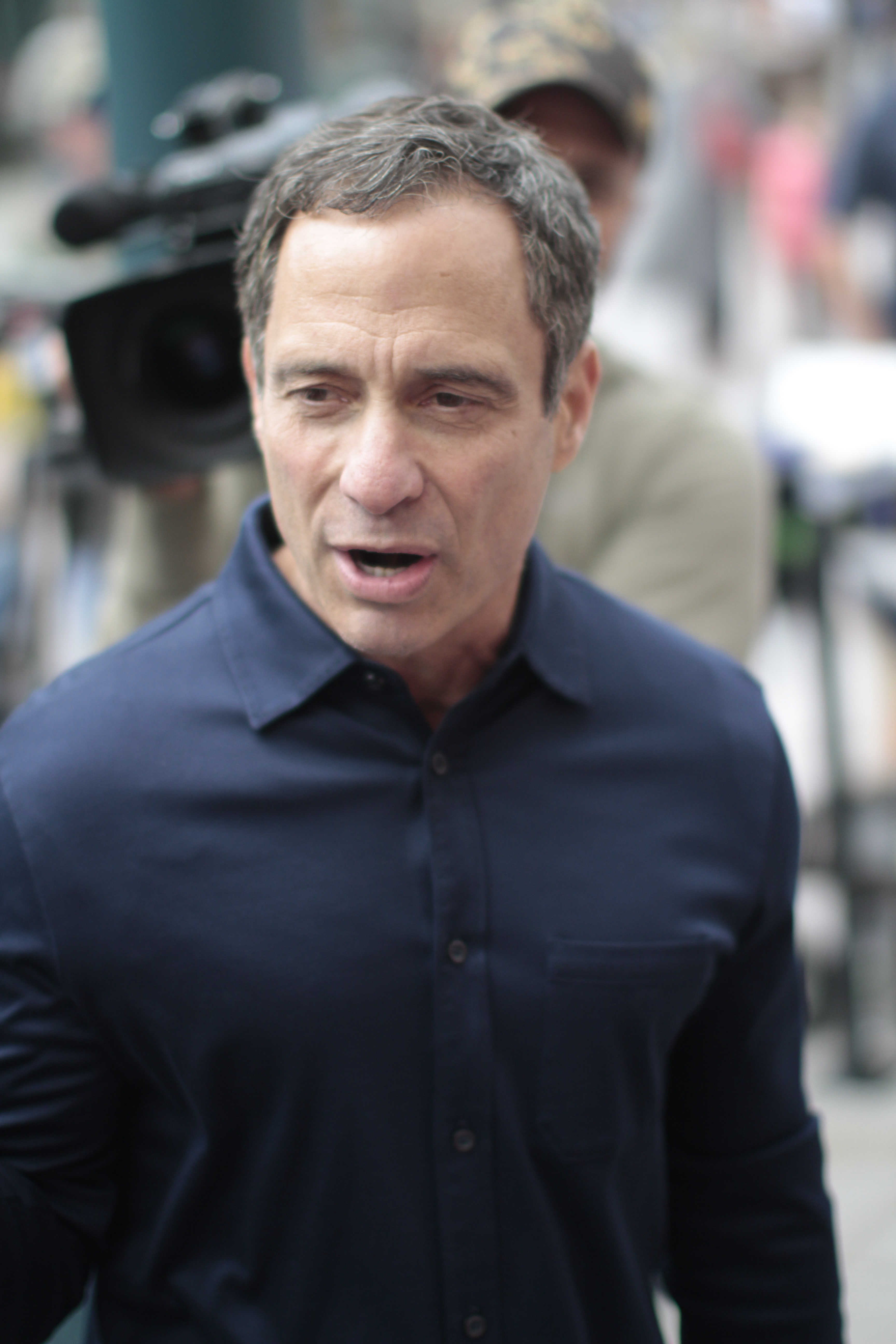 Harvey Levin, Santa Monica, California, 2010